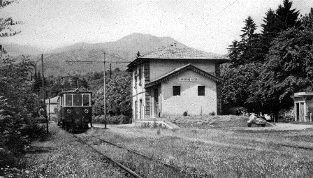 Andorno Micca.jpg